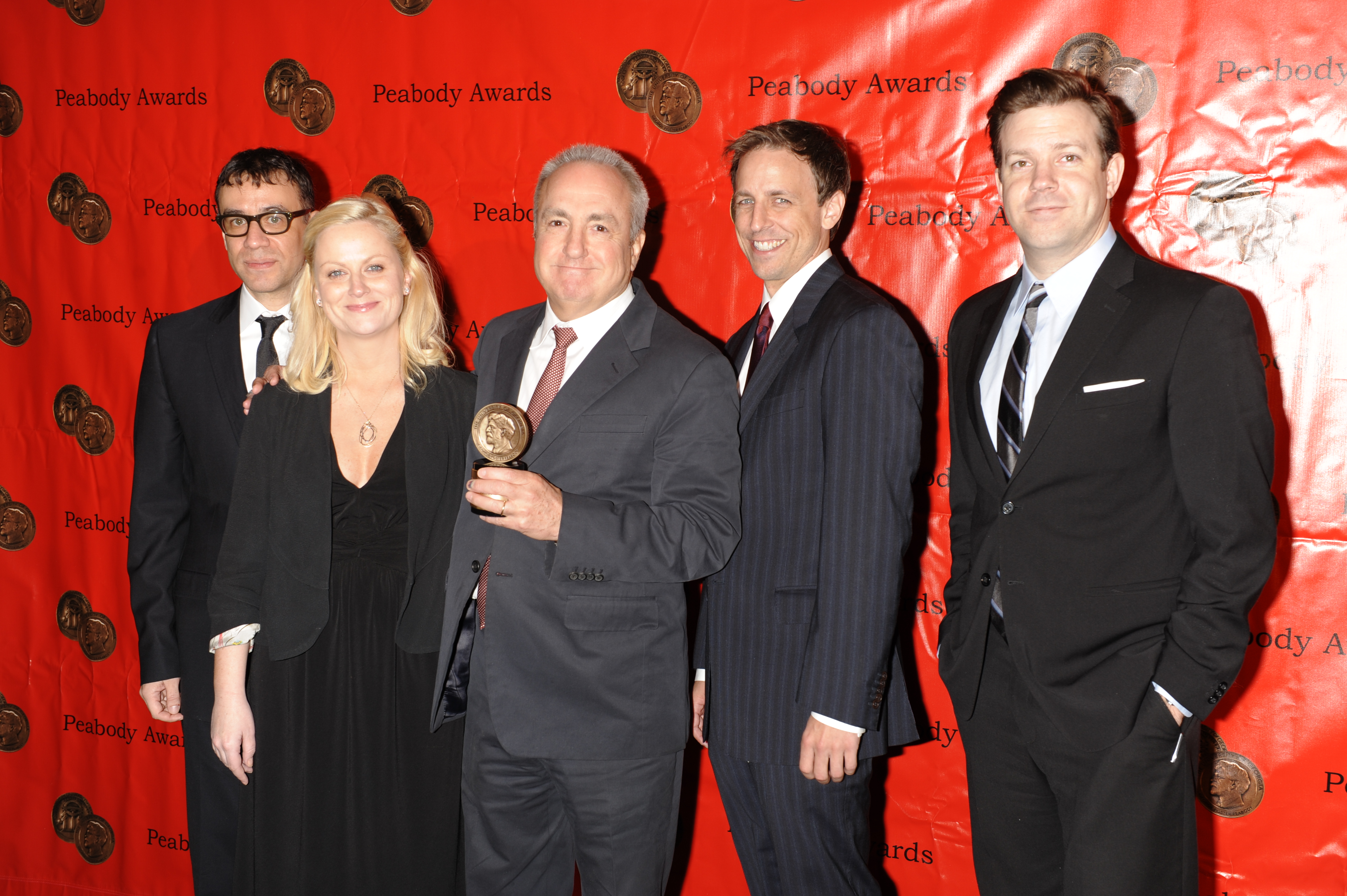 PHOTO CREDIT: ANDERS KRUSBERG / PEABODY AWARDS Fred Armisen, Amy Poehler, Jason Sudeikis, Lorne Michaels and Seth Meyers 68th Annual Peabody Awards Luncheon Waldorf=Astoria Hotel New York, NY USA May 18, 2009